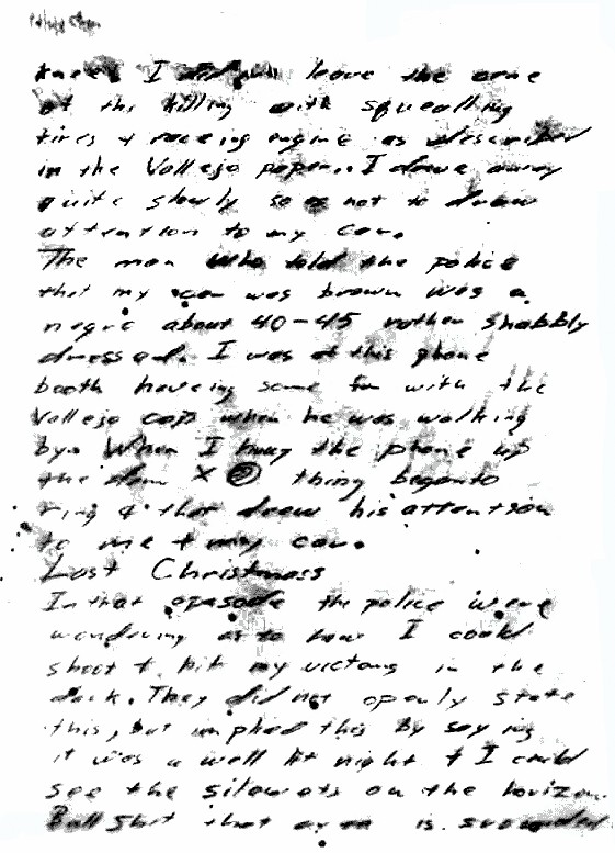 Page 2 of the Zodiac Killer's August 4th 1969 letter to the San Francisco Examiner